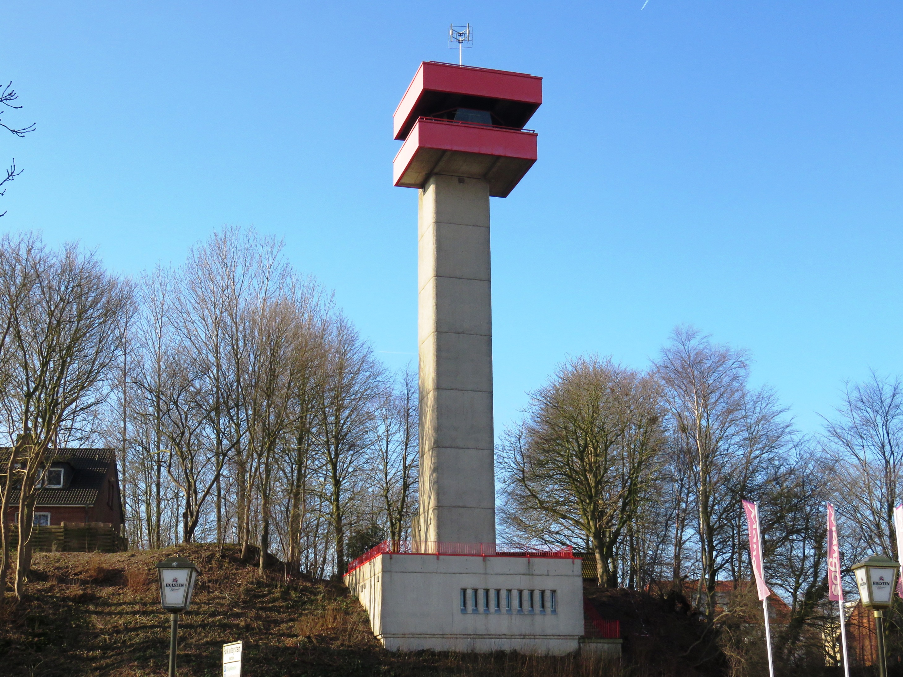 Eckernförde lighthouse is a sector light for the Eckernförde Bight approach